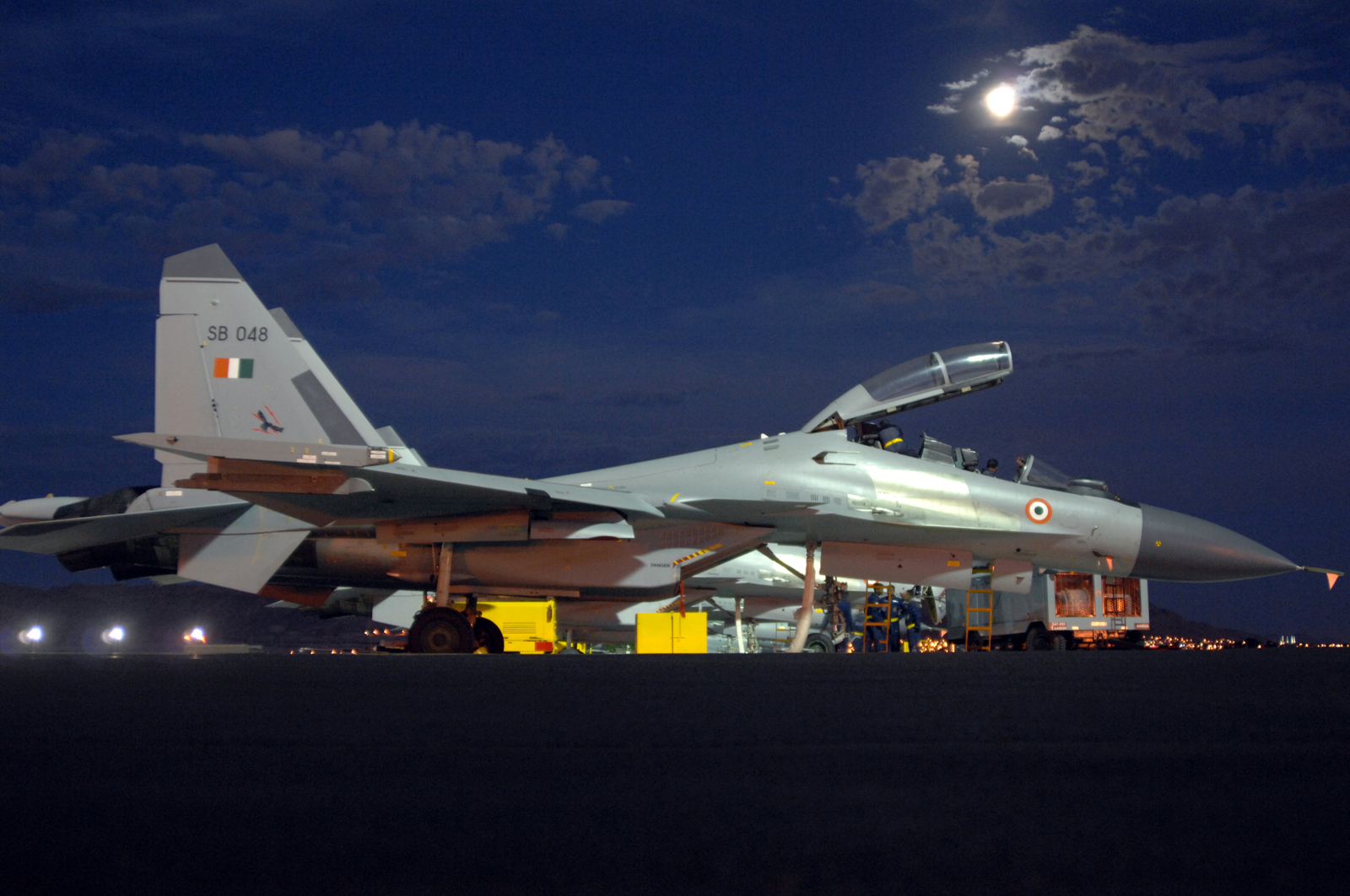 Aircraft maintainers with the Indian air force conduct post-flight maintenance on an SU-30 Fighter following a Red Flag mission at Nellis Air Force Base, Nev. Aug. 13 2008. The Indian air force is at Nellis for Red Flag 08-4, a two-week exercise that pits forces in a realistic aerial "battlefield" to hone the fighting skills of American and allied airmen. Republic of Korea, Indian, Navy and Air Force teams are joining the Indian air force in Red Flag 08-4